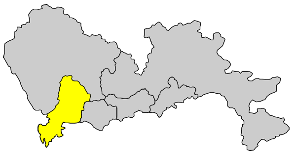 Location of Nanshan District, Shenzhen